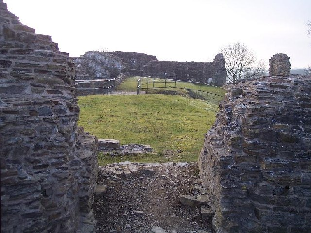 Dolforwyn Castle, Powys